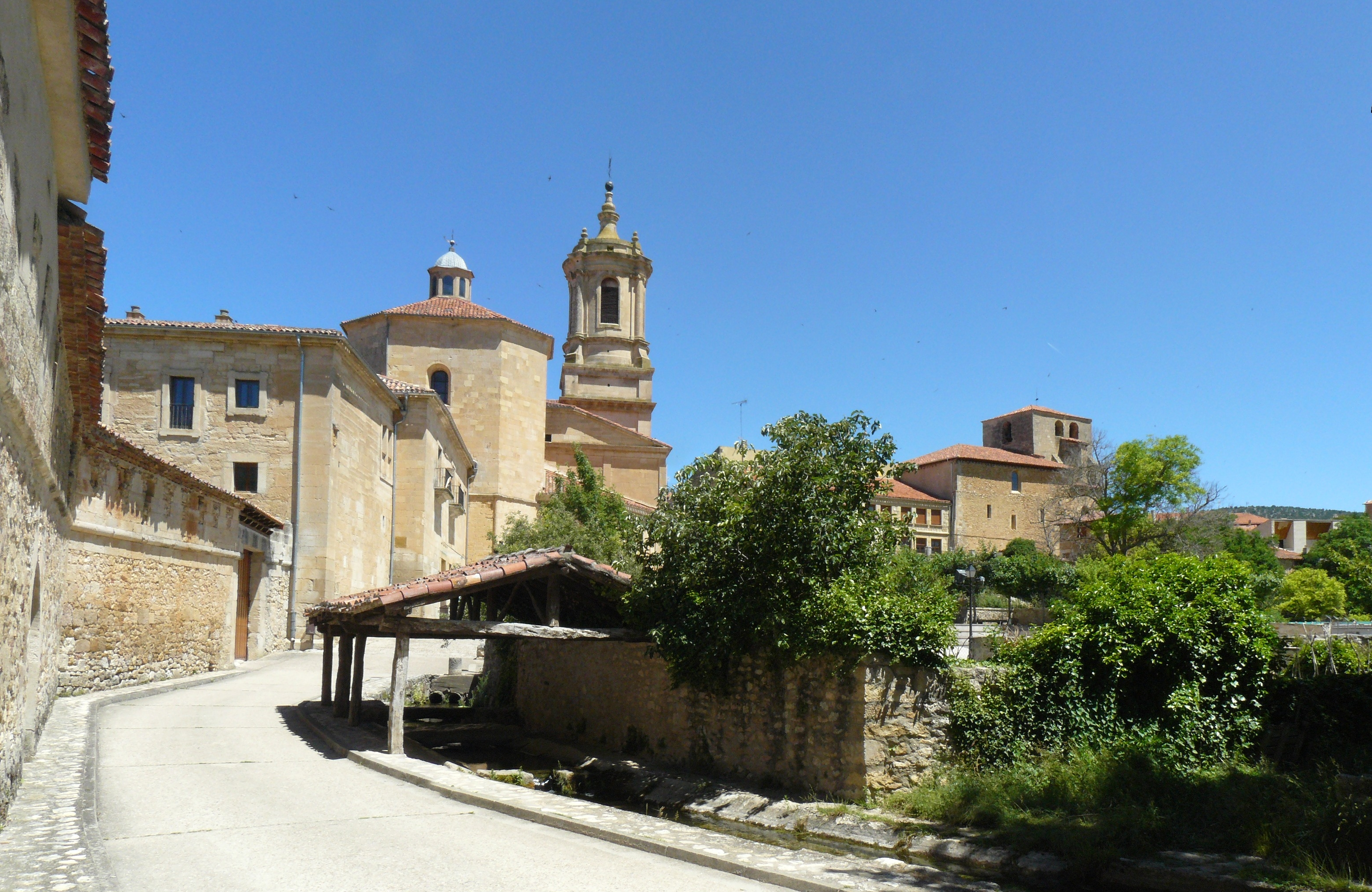 Santo Domingo de Silos from the South.